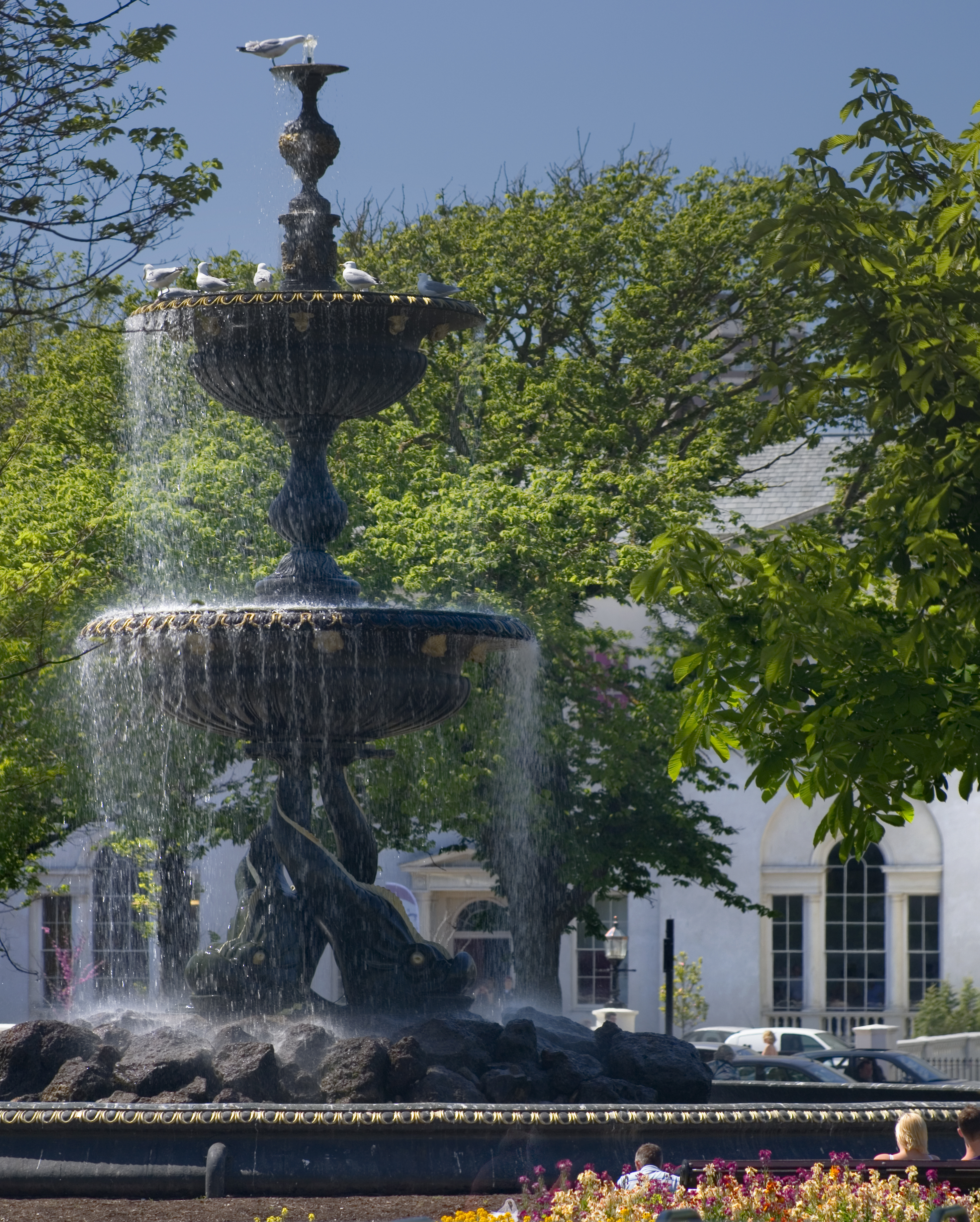 The Victoria Fountain in Victoria Gardens by Amon Henry Wilds, The Old Steine, Brighton, East Sussex, Brighton